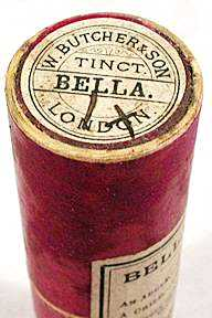 Old Homeopathic belladona remedy